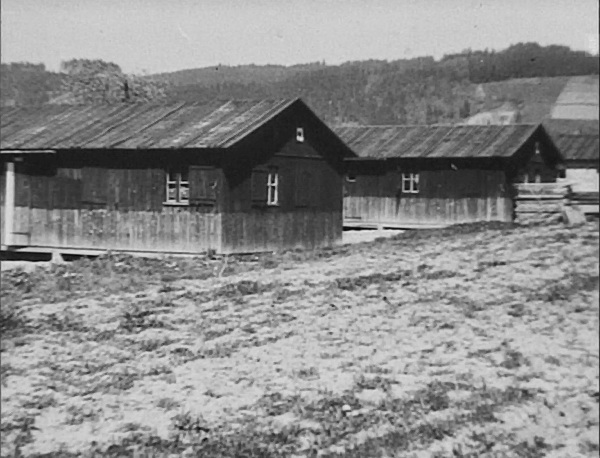 Wauwilermoos internment camp, barracks probably in 1944, Egolzwil-Wauwil, Canton of Luzern.